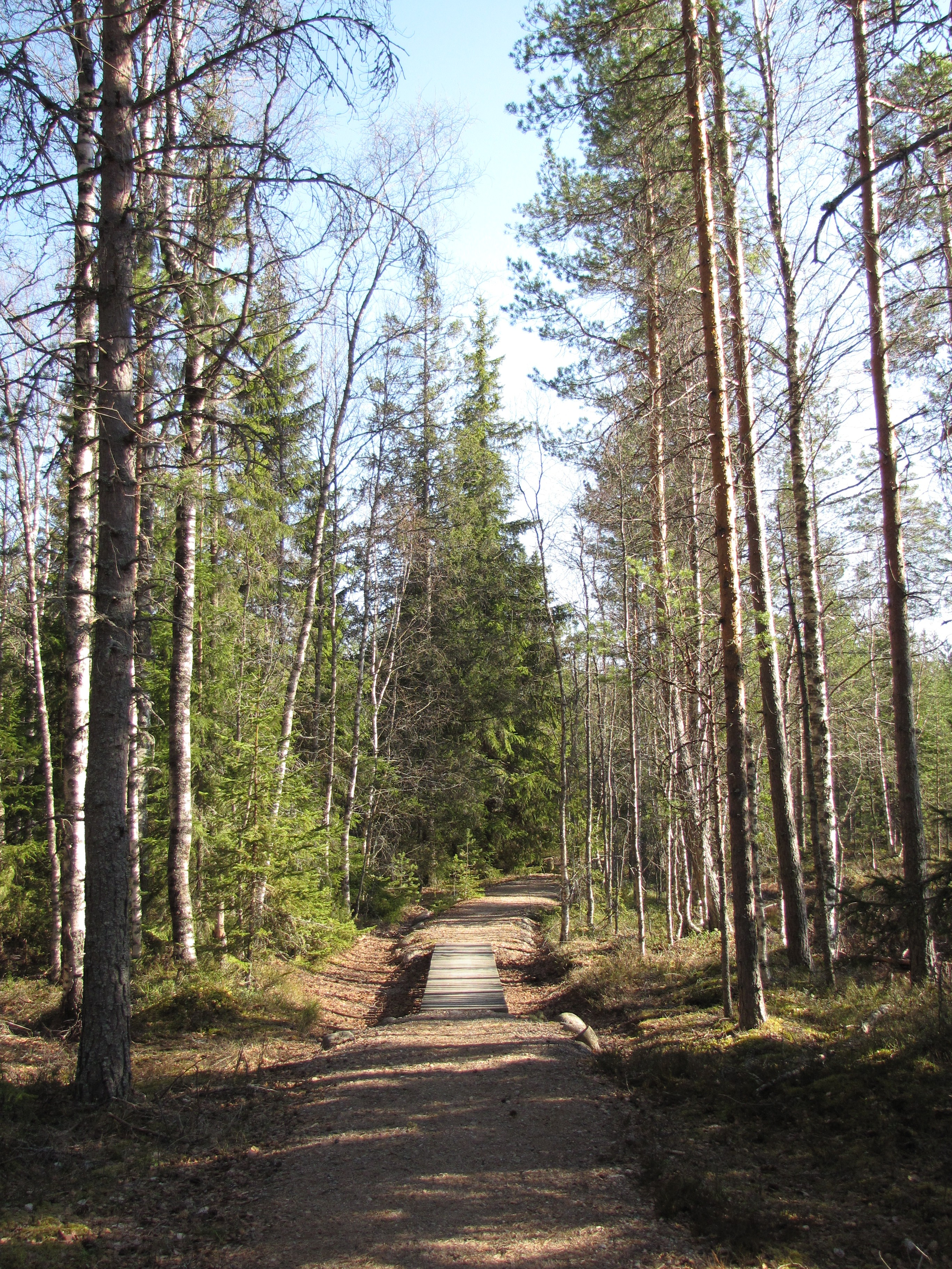 Kyrönkankaan kesätie road in the Kauhaneva–Pohjankangas National Park, Finland.